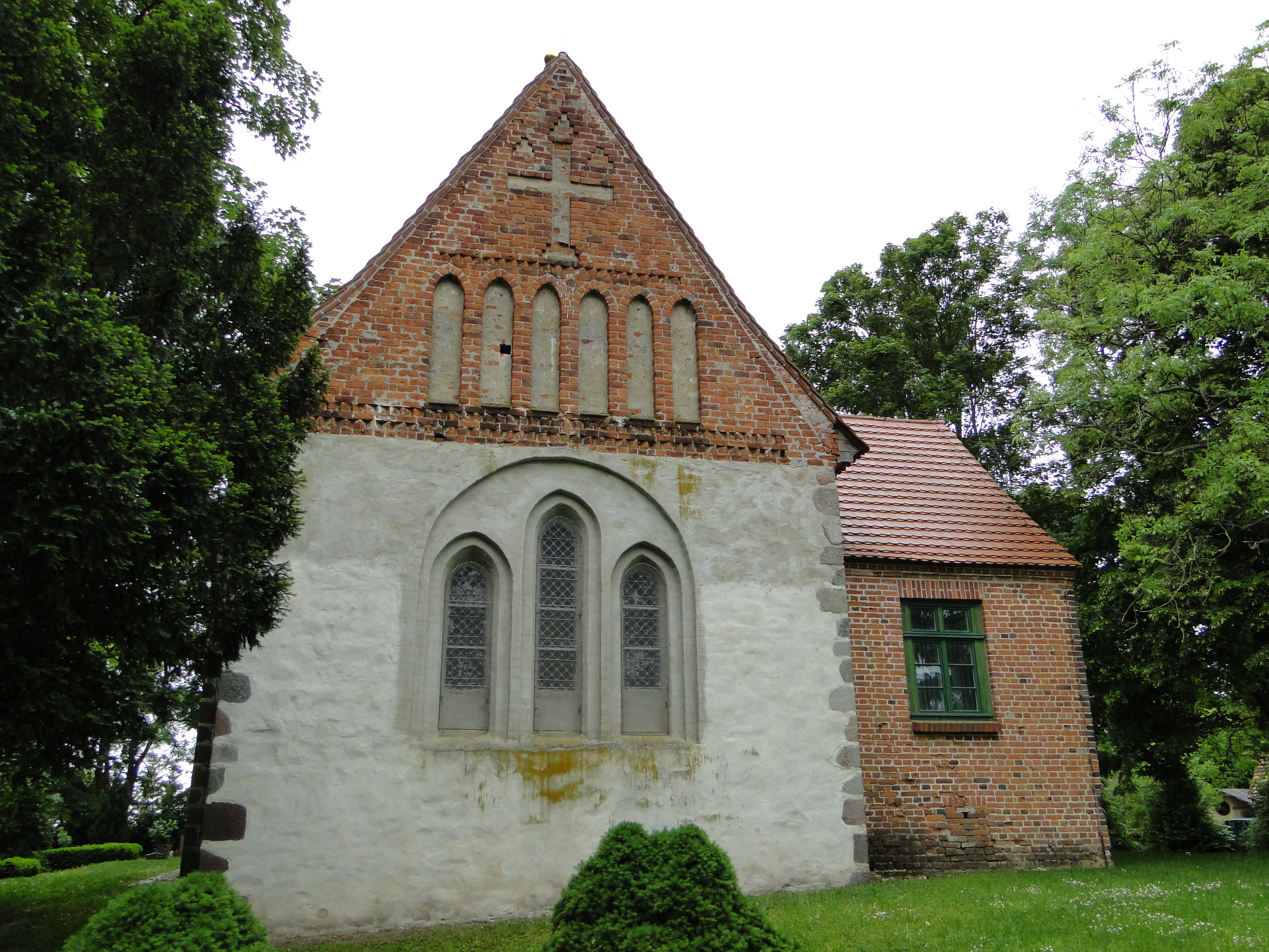 Church in Woserin, district Parchim, Mecklenburg-Vorpommern, Germany